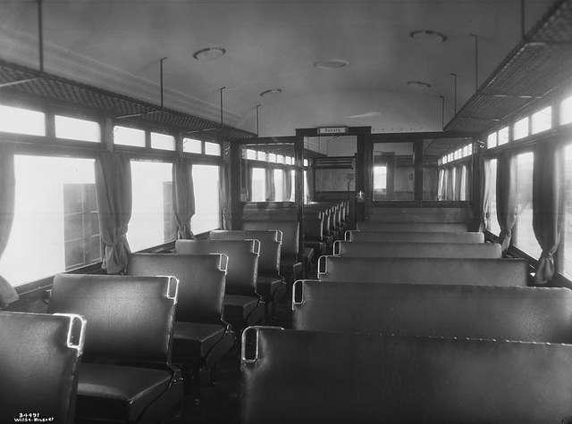 Norwegian State Railways (NSB) Class 62 electric multiple unit interior